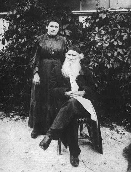 Leo Tolstoy with his daughter Alexandra Lvovna Tolstaya